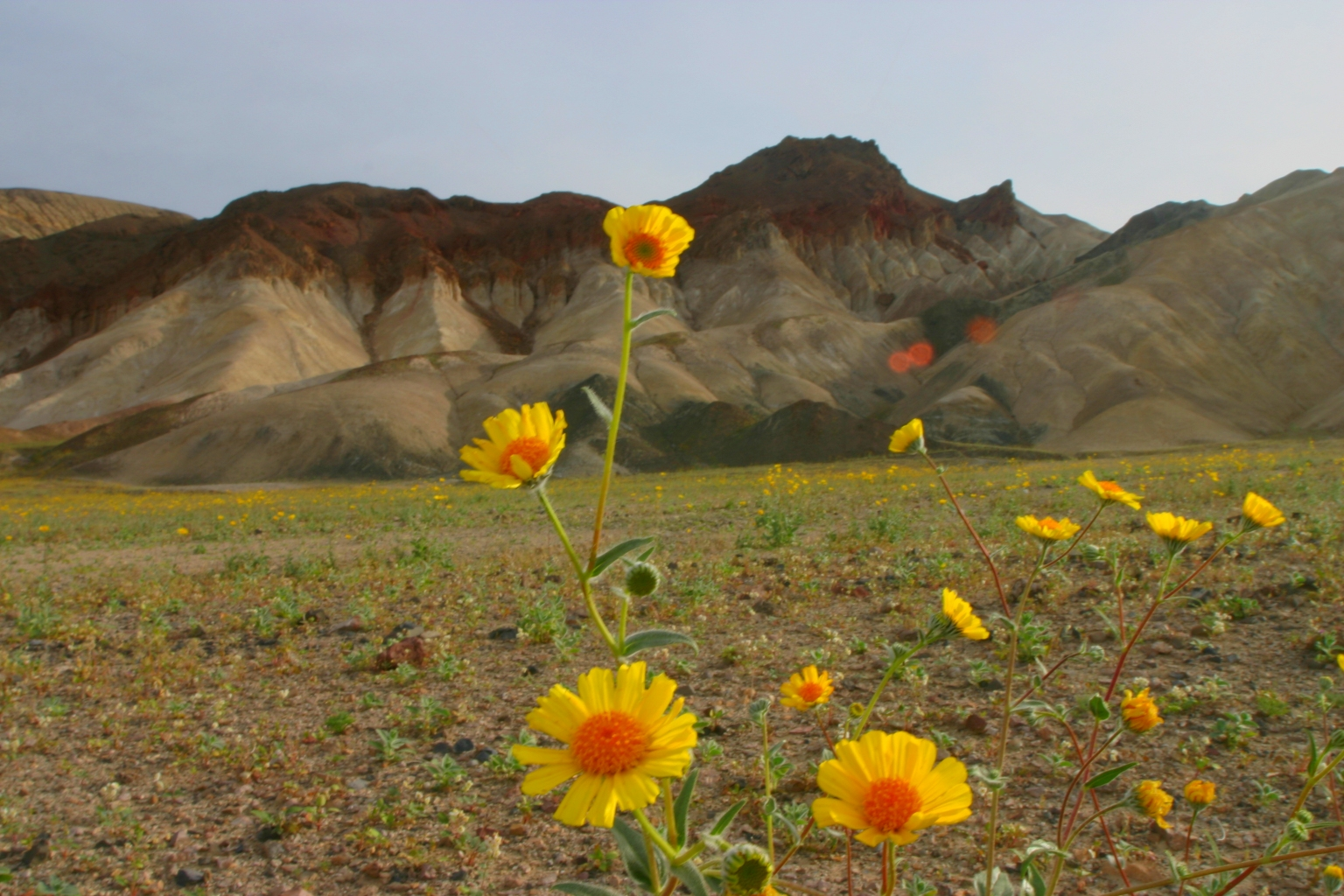 Unidentified Asteraceae in Death Valley National Park Photograped by Brocken Inaglory in April of 2005. Please see one more my picture.